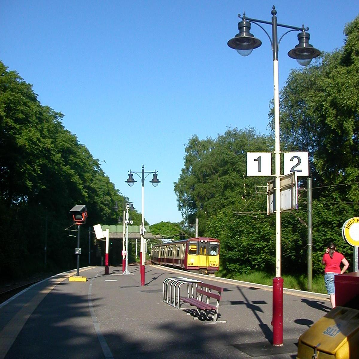 Maxwell Park railway station, Pollokshields, Glasgow, Scotland. Looking east towards Pollokshields West.